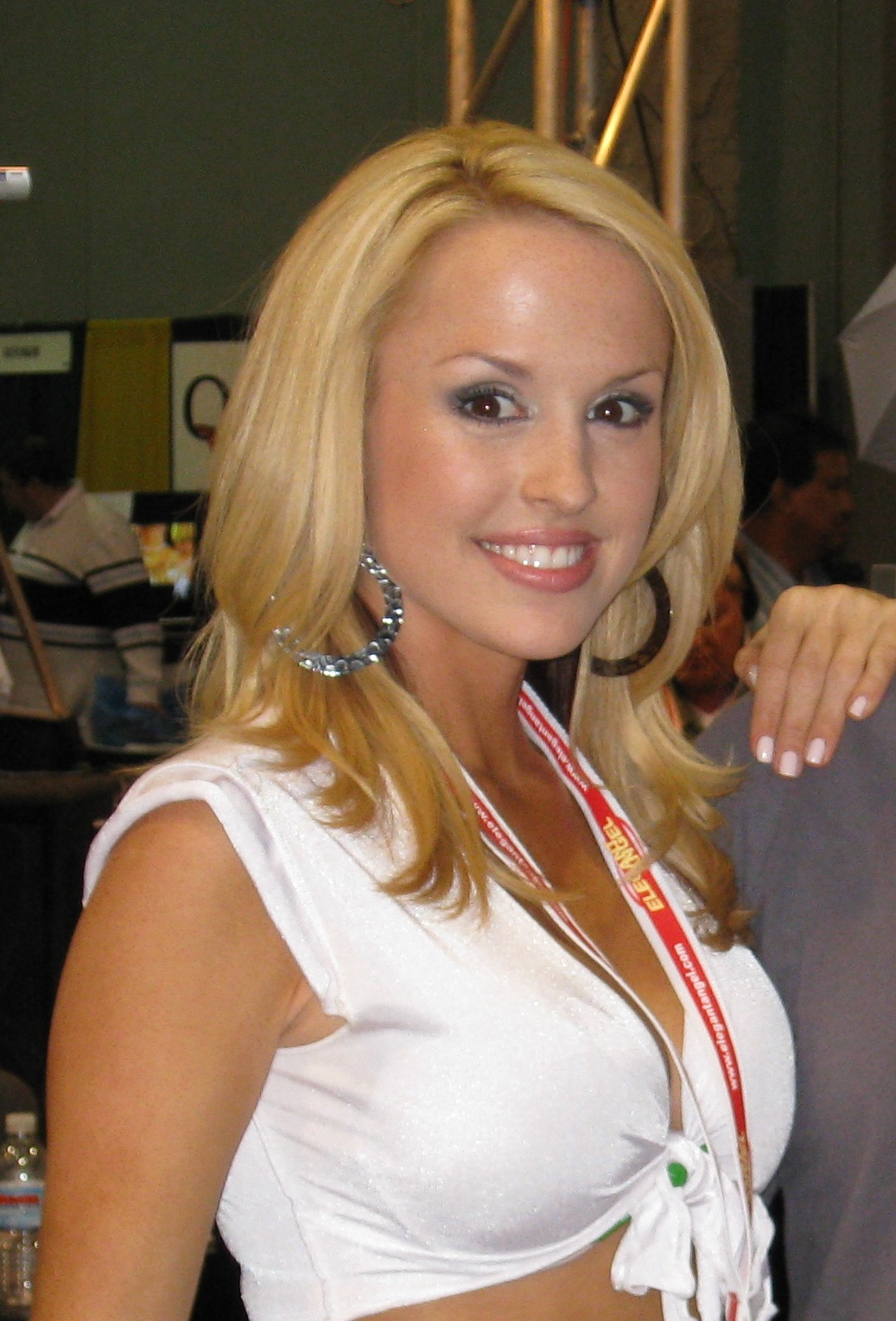 Lauren Brooke (aka Lauren Thompson) at an expo in 2008